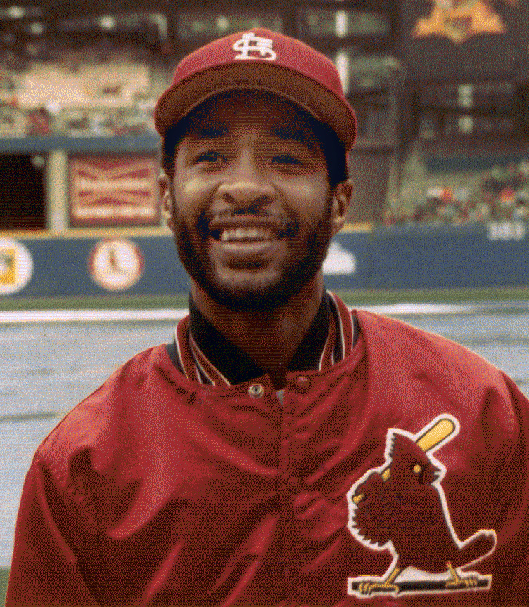 Professional baseball player Ozzie Smith is shown at Busch Memorial Stadium in 1983, during his time playing for the St. Louis Cardinals.